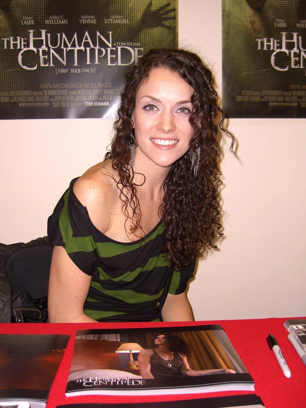 Actor Ashlynn Yennie at the Big Apple Convention in Manhattan, October 1, 2010. This photo was created by Luigi Novi. It is not in the public domain, and use of this file outside of the licensing terms is a copyright violation.